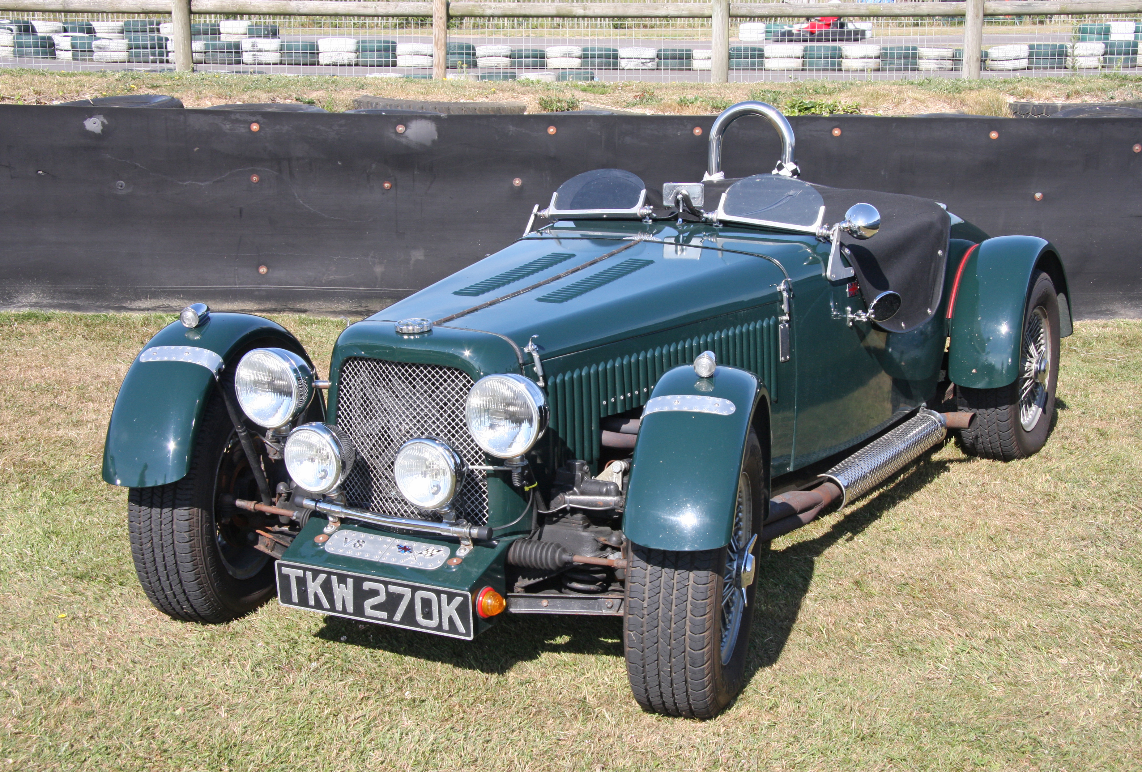 NG TC Roadster kit car